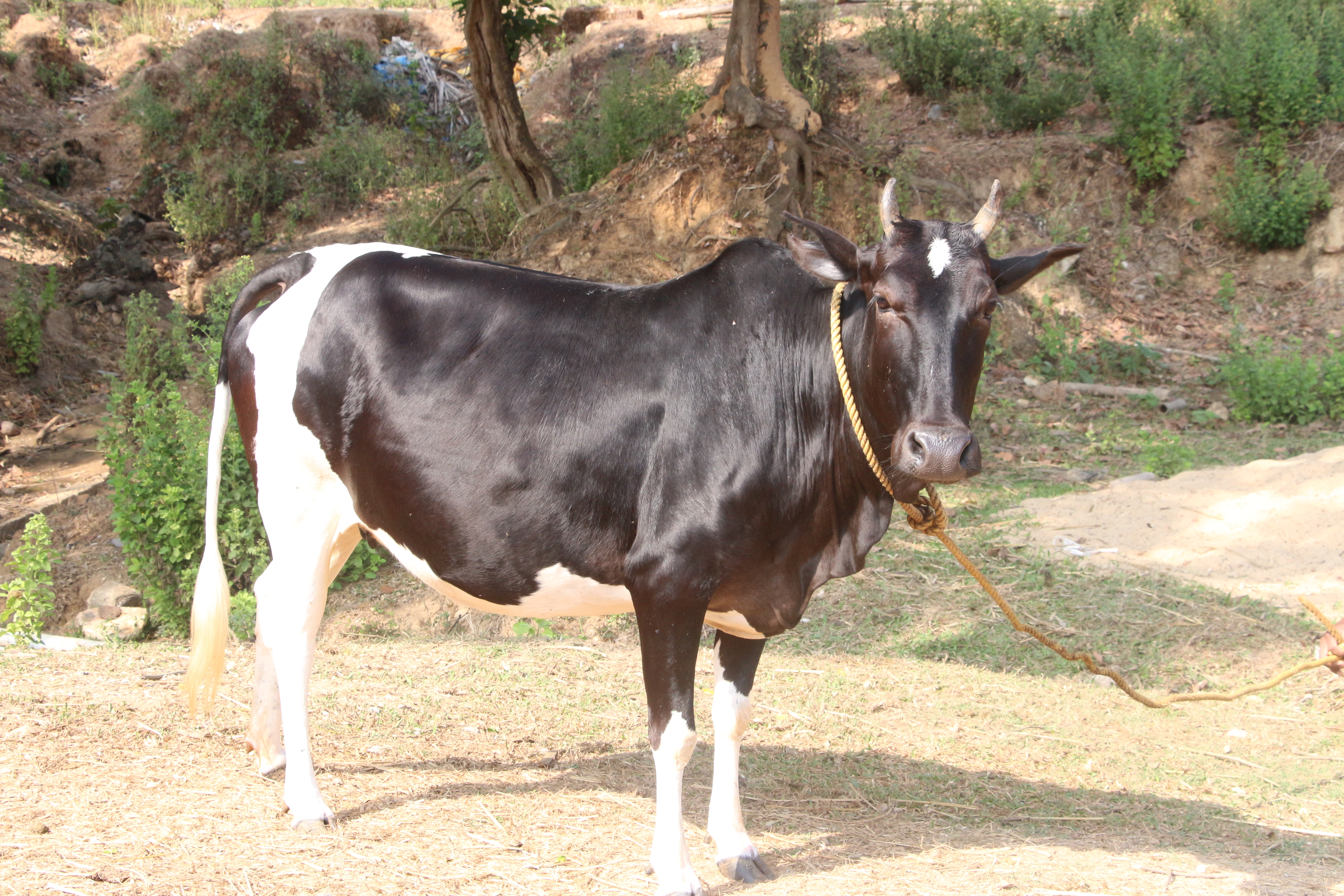 Indian cow breed Ponwar